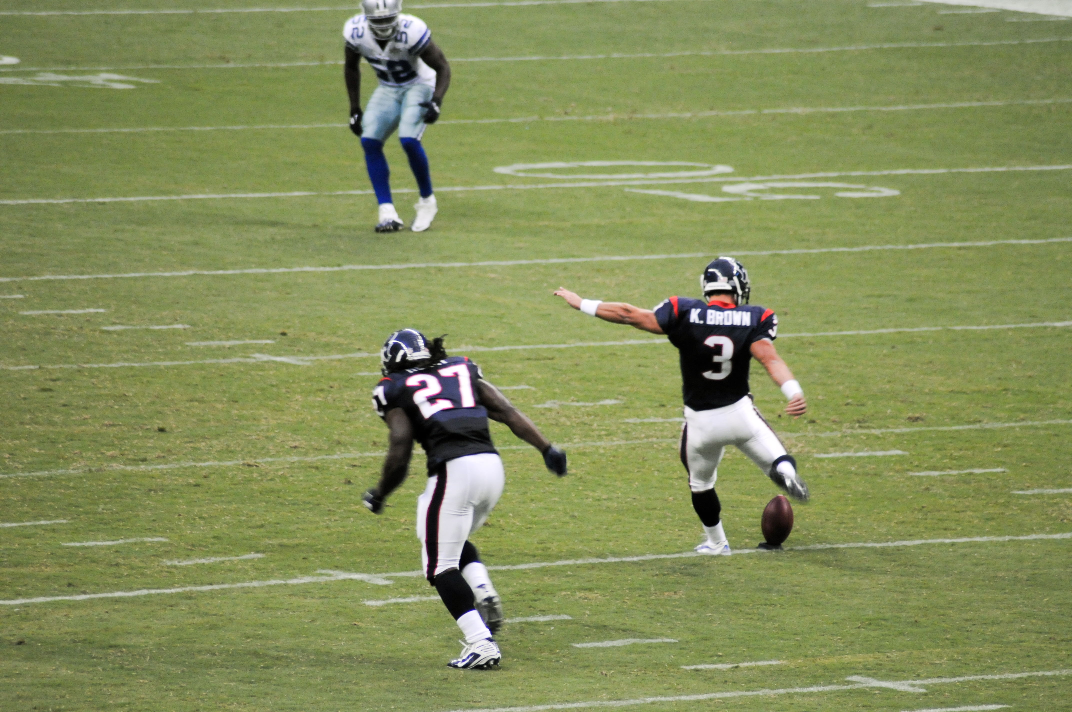 Kris Brown of the Houston Texans kicking off against the Dallas Cowboys.